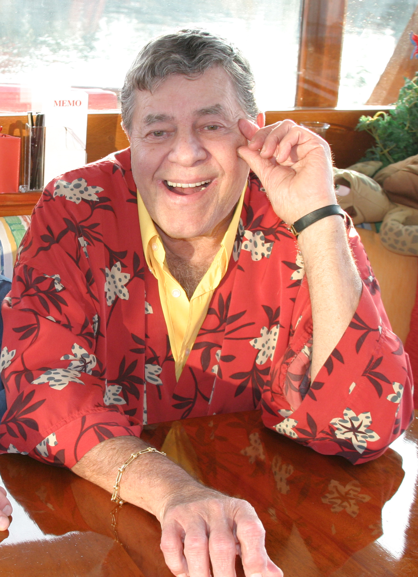 Comedian Jerry Lewis - Photograph by Patty Mooney, Crystal Pyramid Productions, San Diego, California